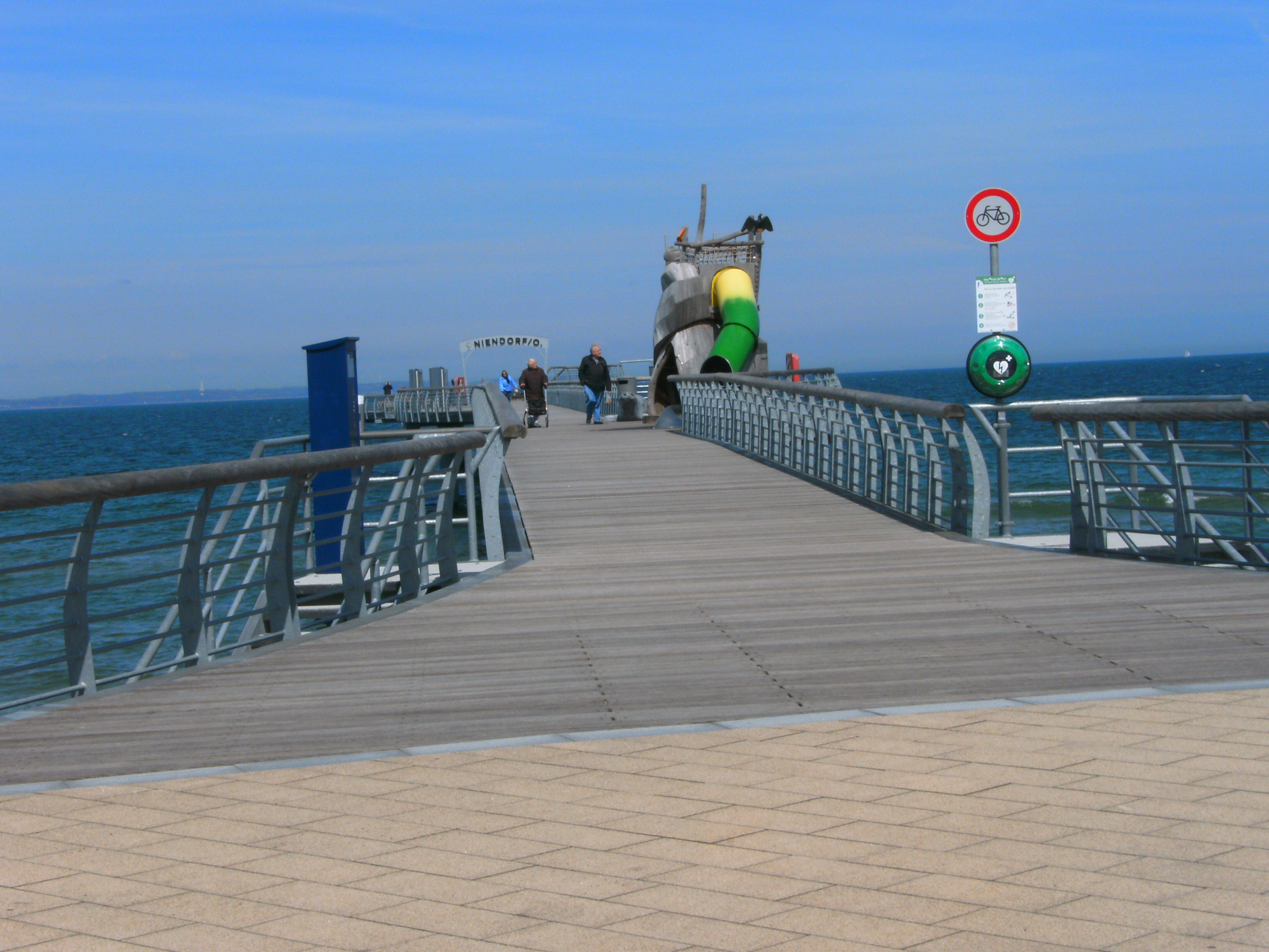 Timmendorfer Strand-Niendorf, Germany: Seebrücke (sea bridge).